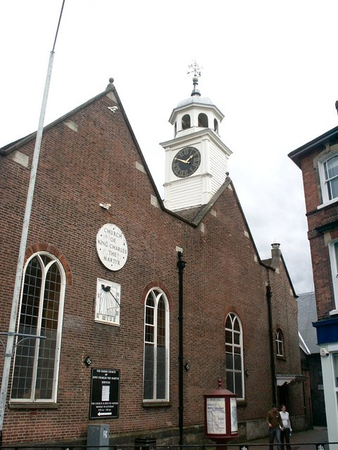 Church of King Charles the Martyr A nice clue to the support Royal Tunbridge Wells gave during the Civil War, this is a church dedicated to King Charles, the Martyr. This church is to be found on the corner of London Road and Nevill Street.